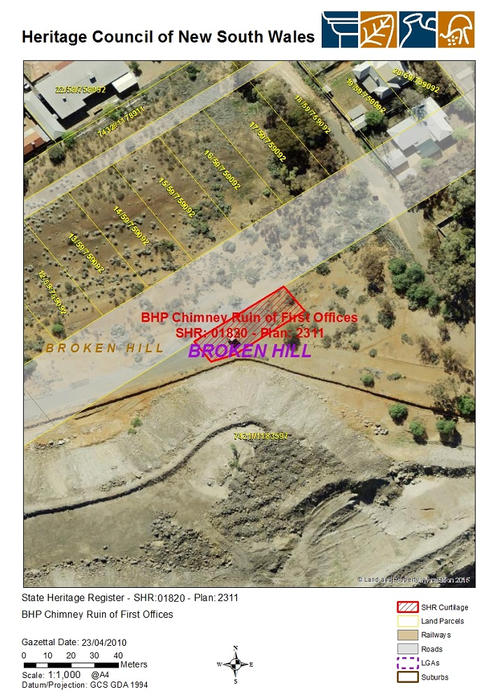 First BHP Offices Chimney Ruin: SHR Plan 2311